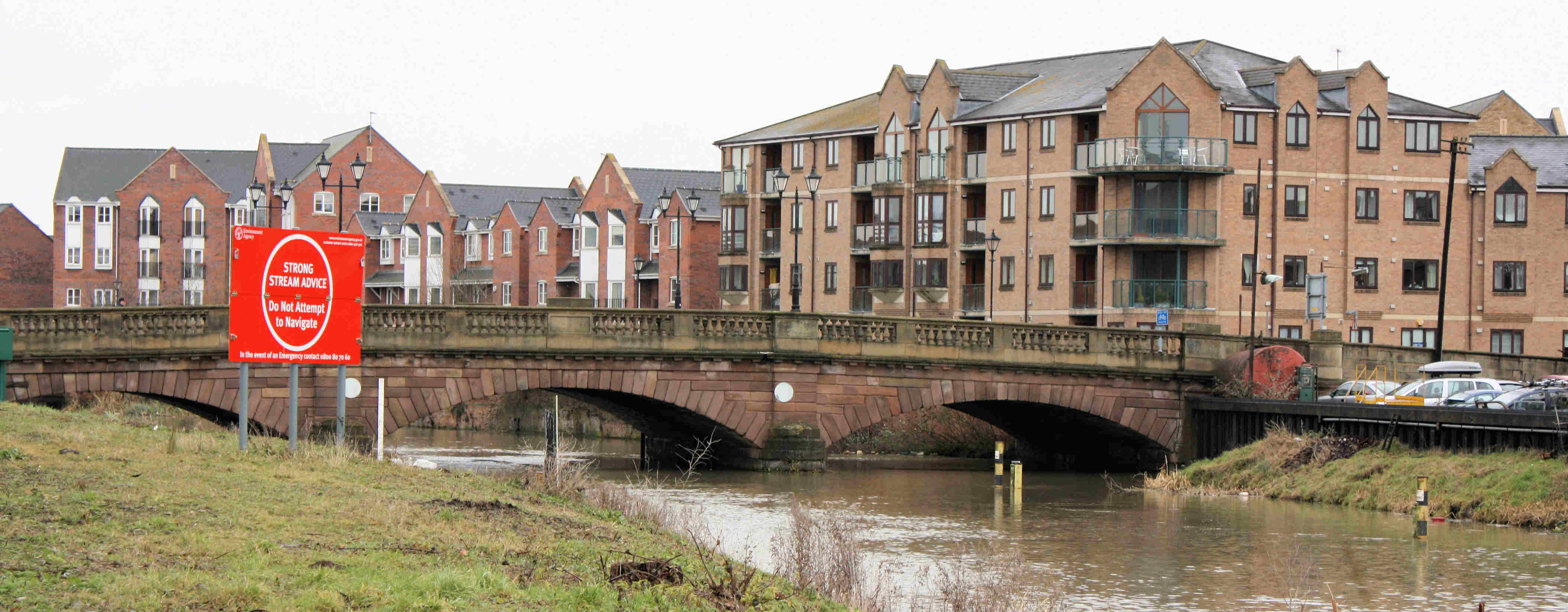 South Bridge, Northampton looking east when the River was high, taken 26 February 2010